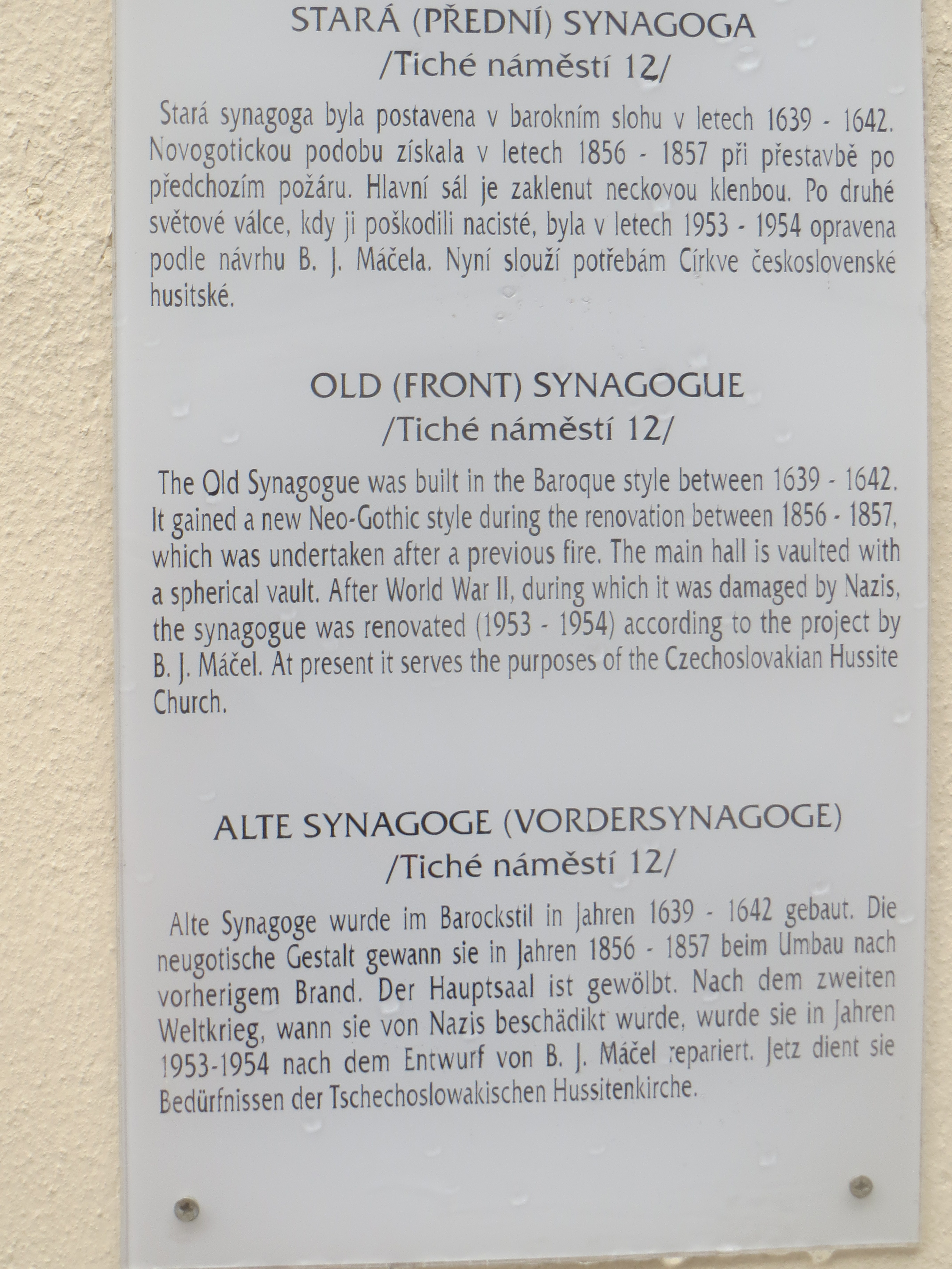 Plaque giving information (Přední synagoga (Třebíč)